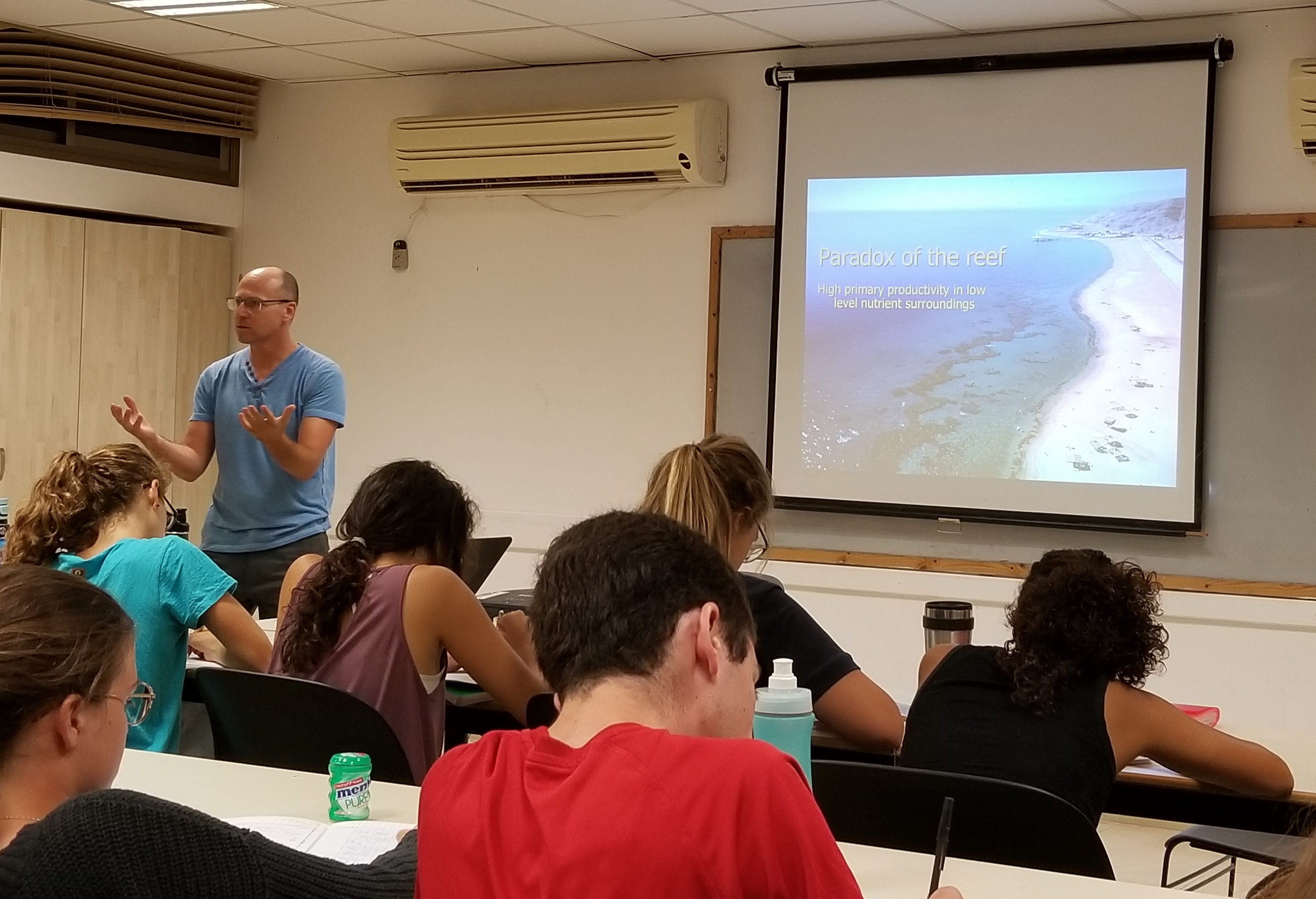 Lecture on the ecology of coral reefs in the Gulf of Aqaba, Arava Institute of Environmental Studies, Ketura, October 2018